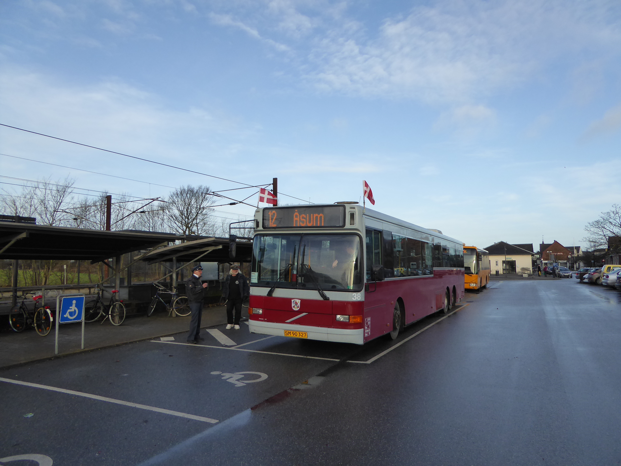 Old bus from Odense, OB 38, at Borup Station in Denmark.